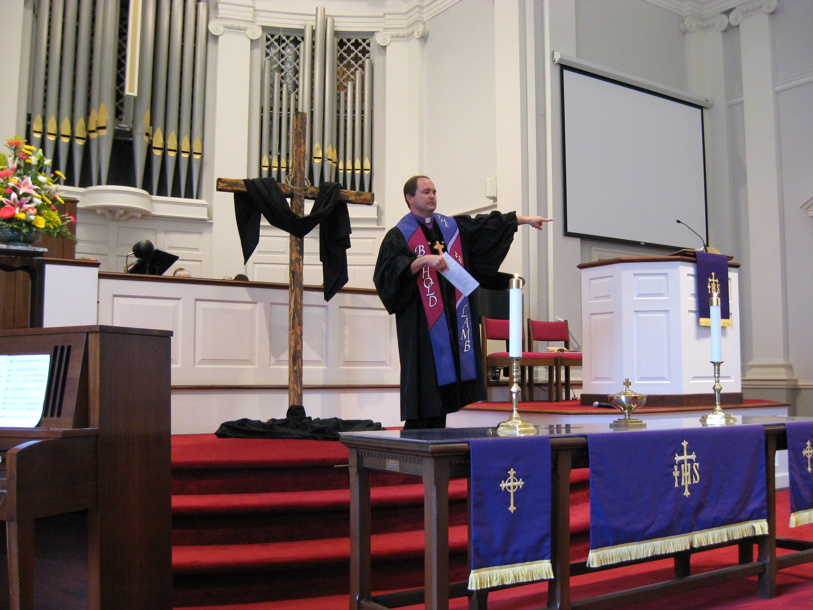 Worship in First Presbyterian Church of Charlottesville, Virginia, USA.